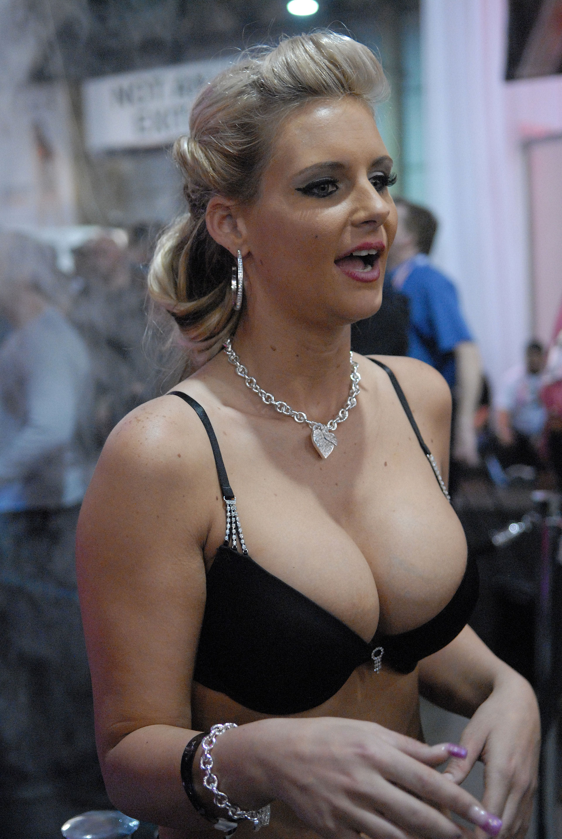 Phoenix Marie in Las Vegas.